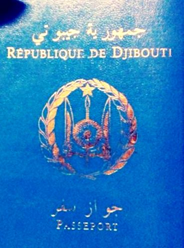 Djiboutian passport